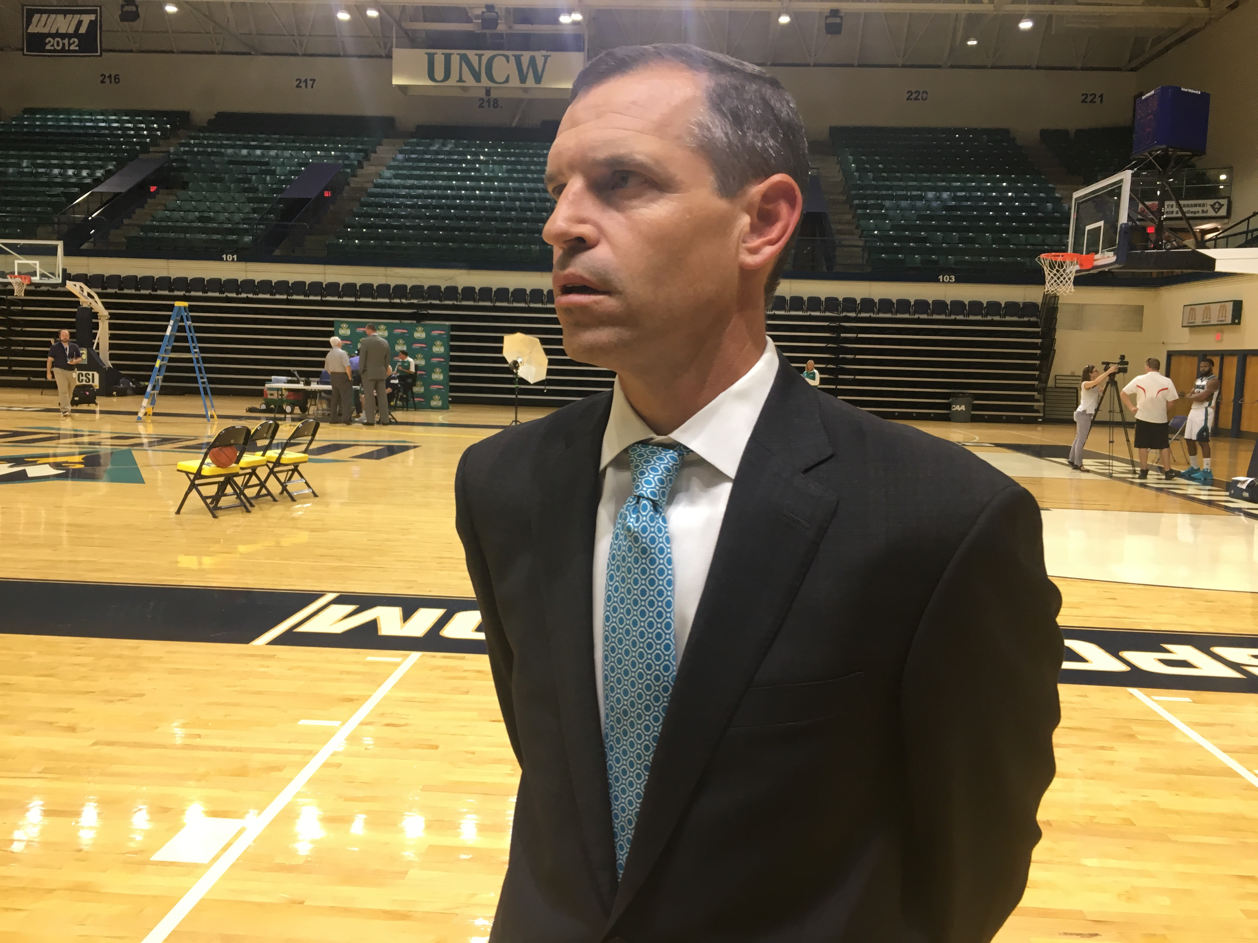 McGrath at UNCW's 2017-18 Media Day